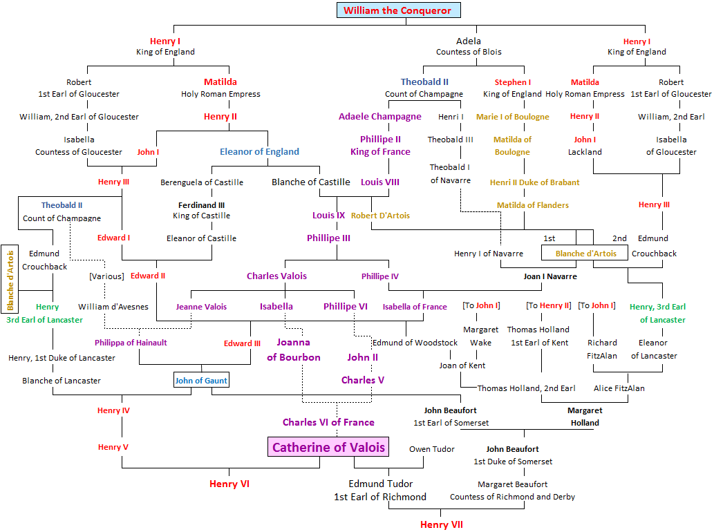 Descent from William the Conqueror with further Descents to Henry VI and Henry VII